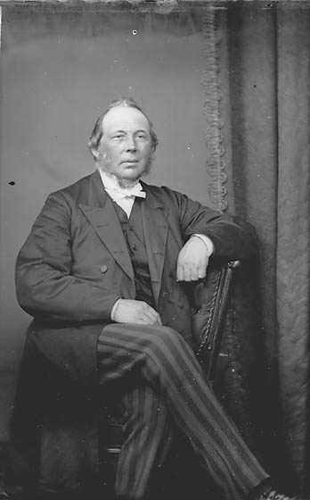 1 negative : glass, wet collodion, b&w ; 11 x 16.5 cm.